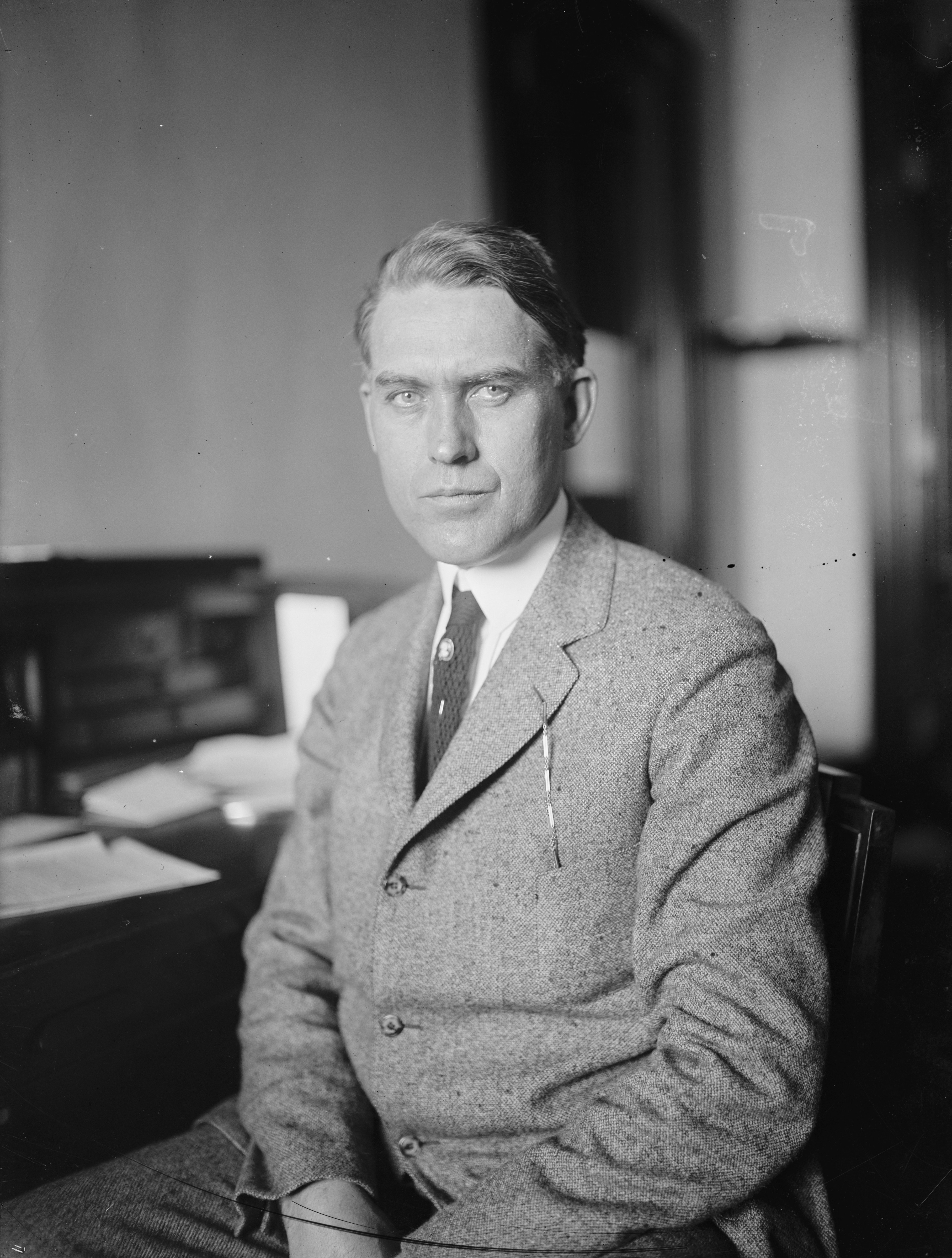 Title: Sen. Henrik Shipstead Abstract/medium: 1 negative : glass ; 5 x 7 in. or smaller